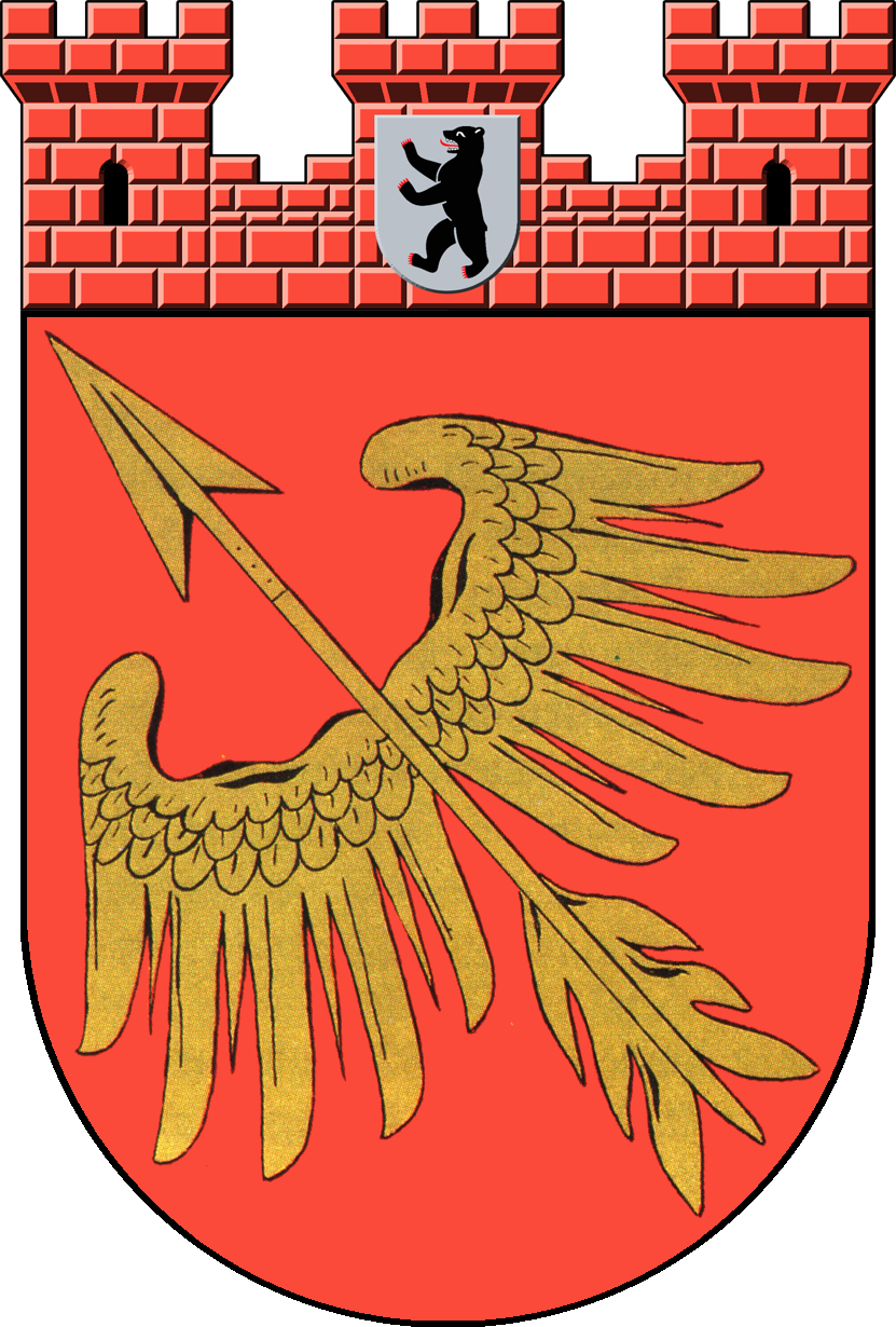 Coat of arms of Wedding, a former Boroughs of Berlin.